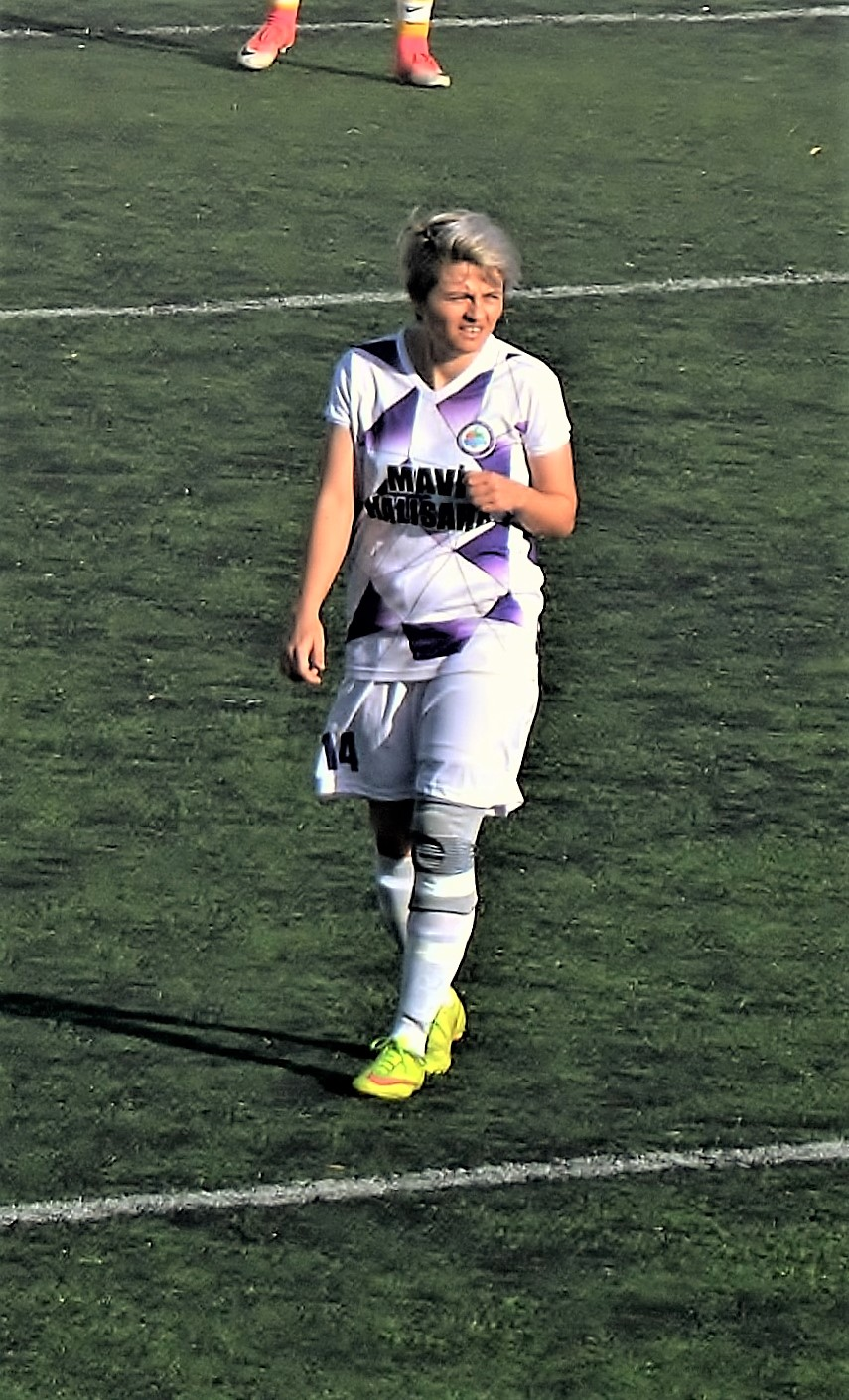 Lütfiye Ercimen playing for Kdz. Ereğlispor in the 2017-18 Turkish Women's First Football League